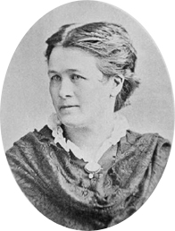 Lucy Hobbs Taylor (1833-1910), first female dentist in the U.S.